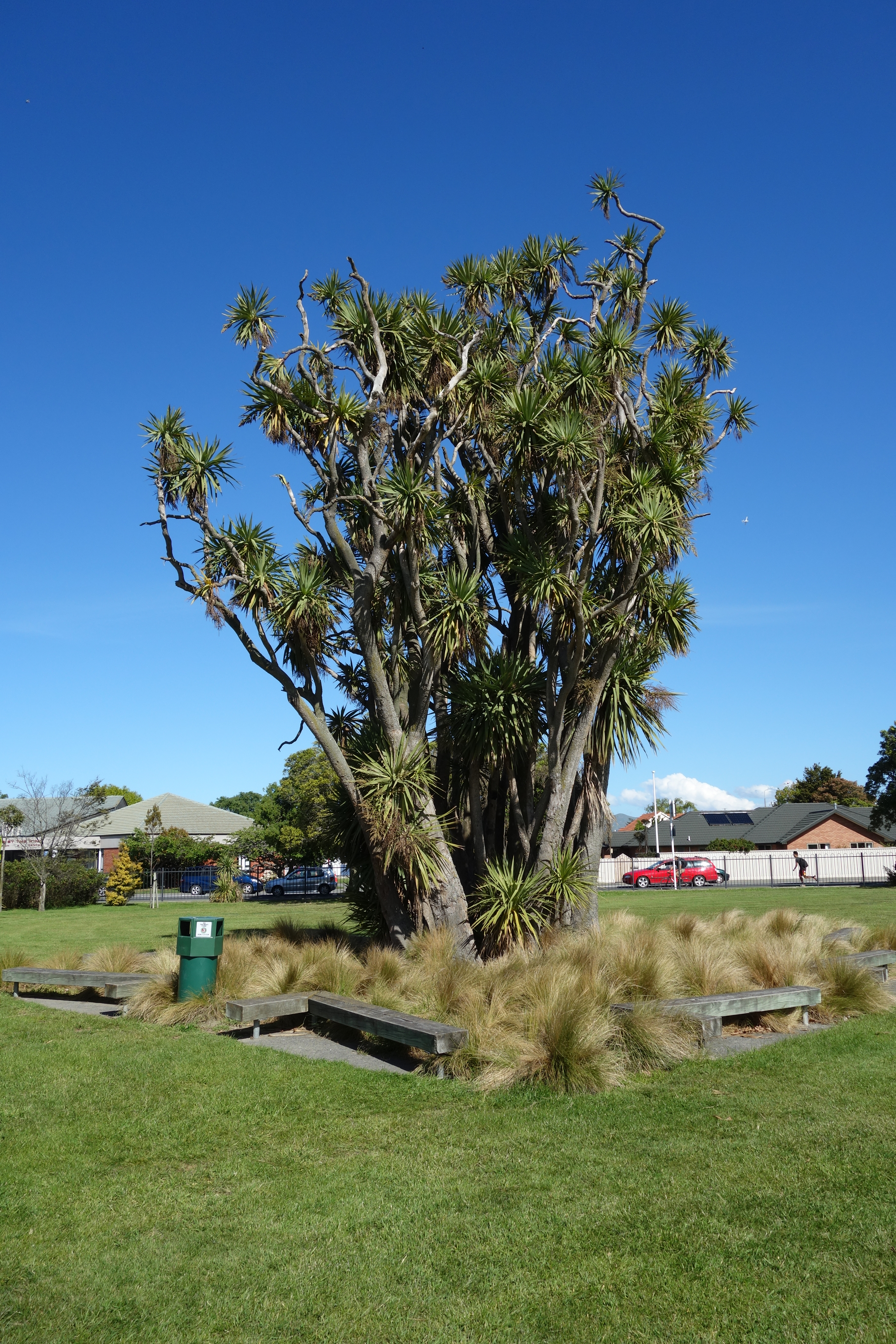 Burnside cabbage tree